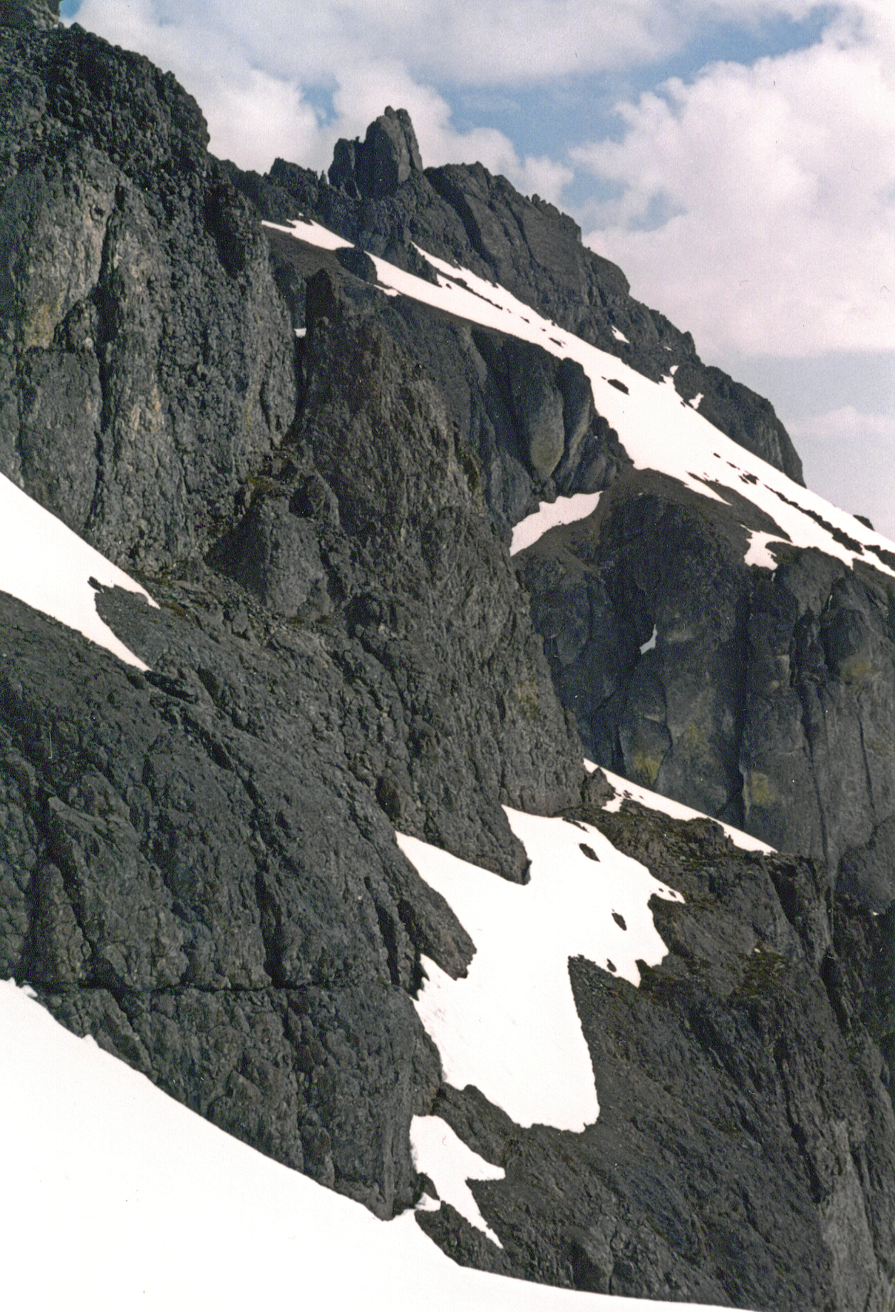 The summit block of Mount Constance, Olympic Mountains